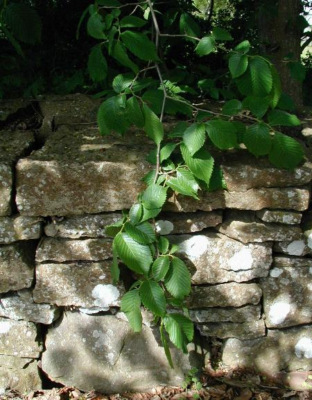 Ulmus glabra: Leaves. Öland, May 2002. Photographer: Sten Porse